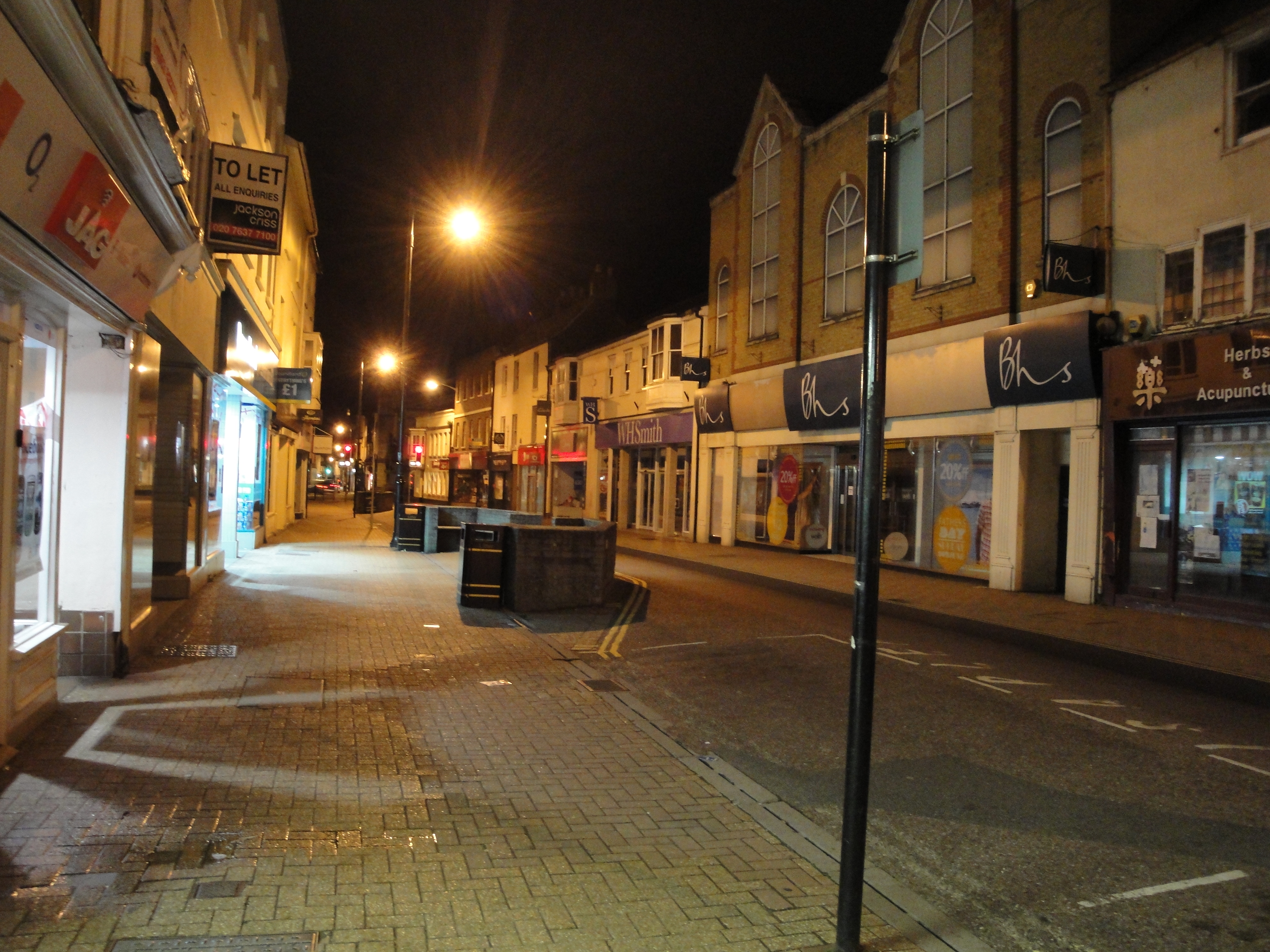 The High Street, Newport, Isle of Wight seen towards the traffic lights at the cross roads in the middle at night.